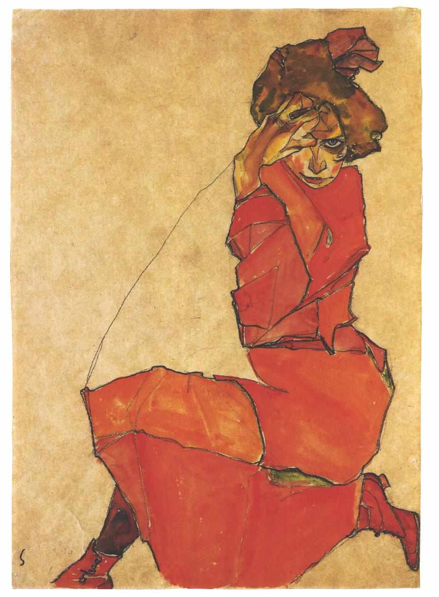 Kneeling girl with red-organge chloth)